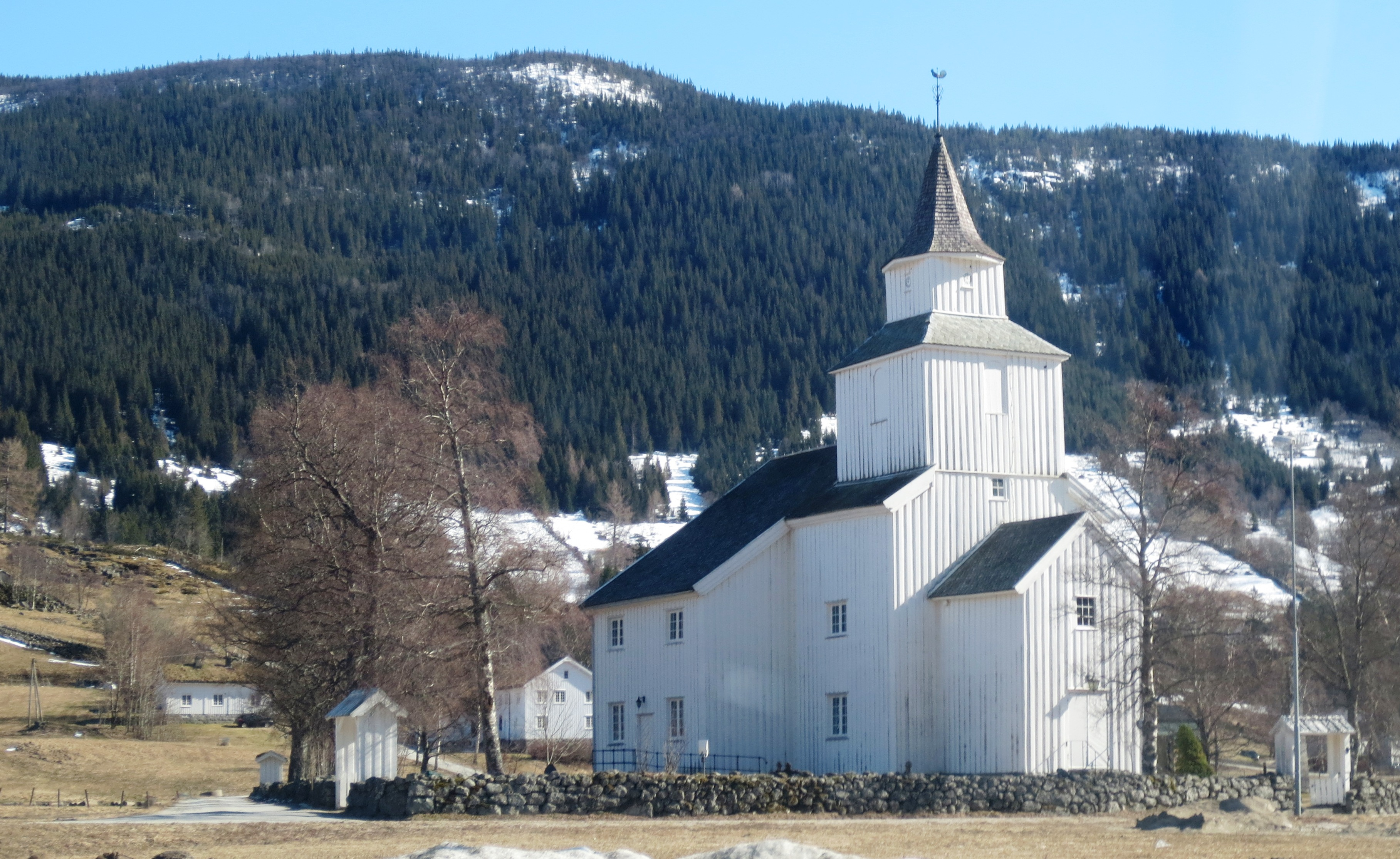 Valle municipality is the second from the north in the Setesdalen valley, Aust-Agder county, Norway.